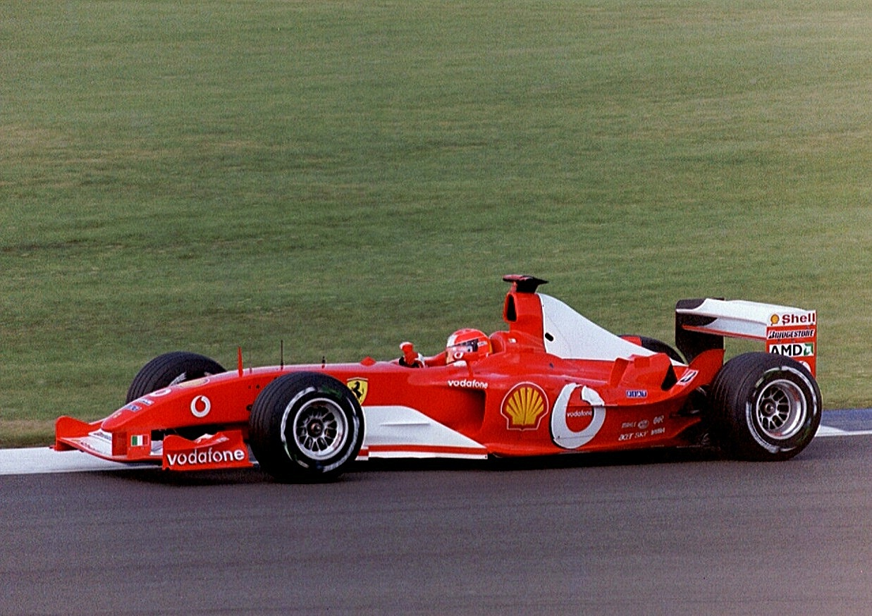 Michael Schumacher, driving his Marlboro Ferrari at the 2003 British Grand Prix.